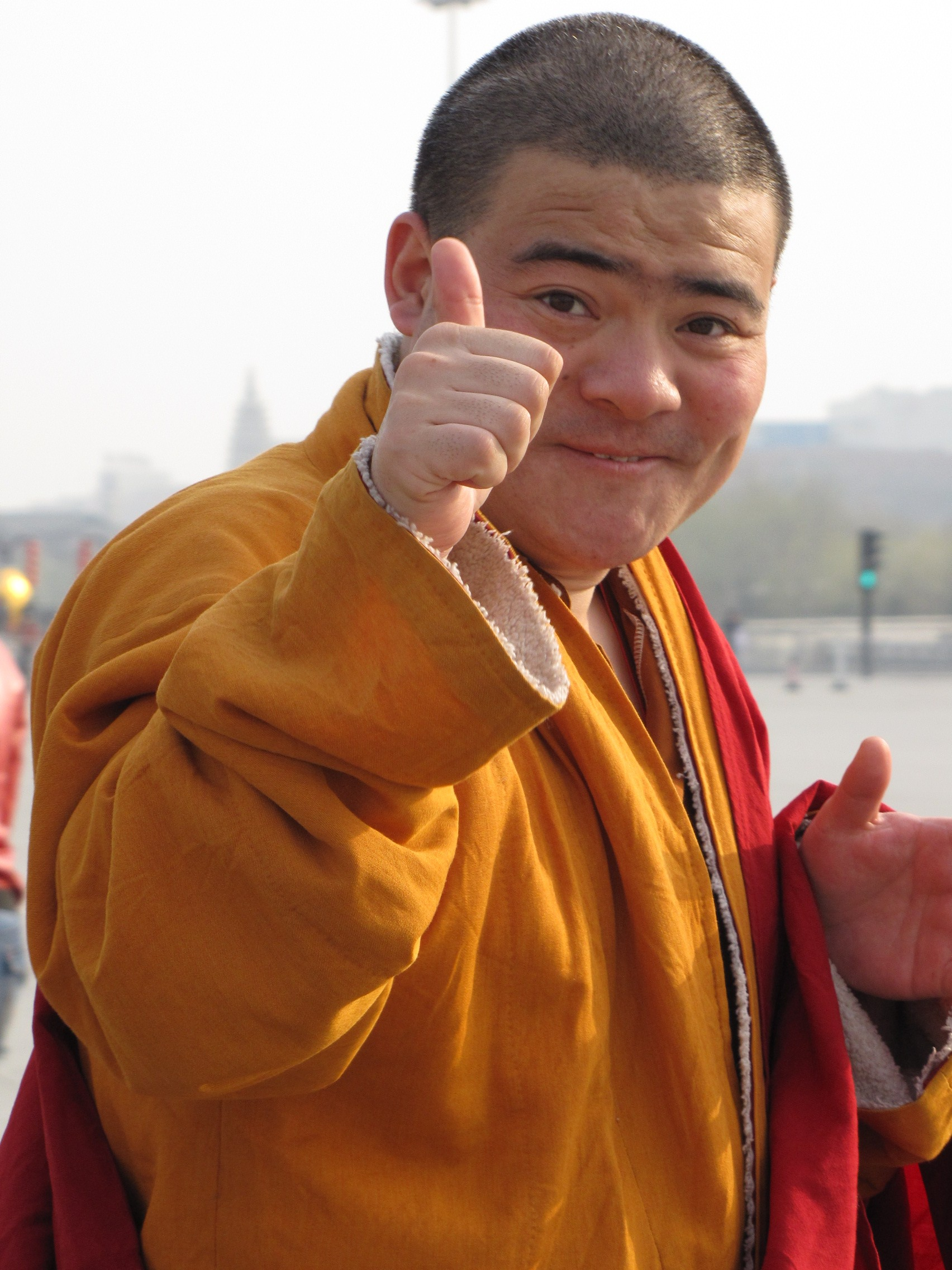 Chinese Buddhist monk as a tourist, Beijing olympic park, march 2009